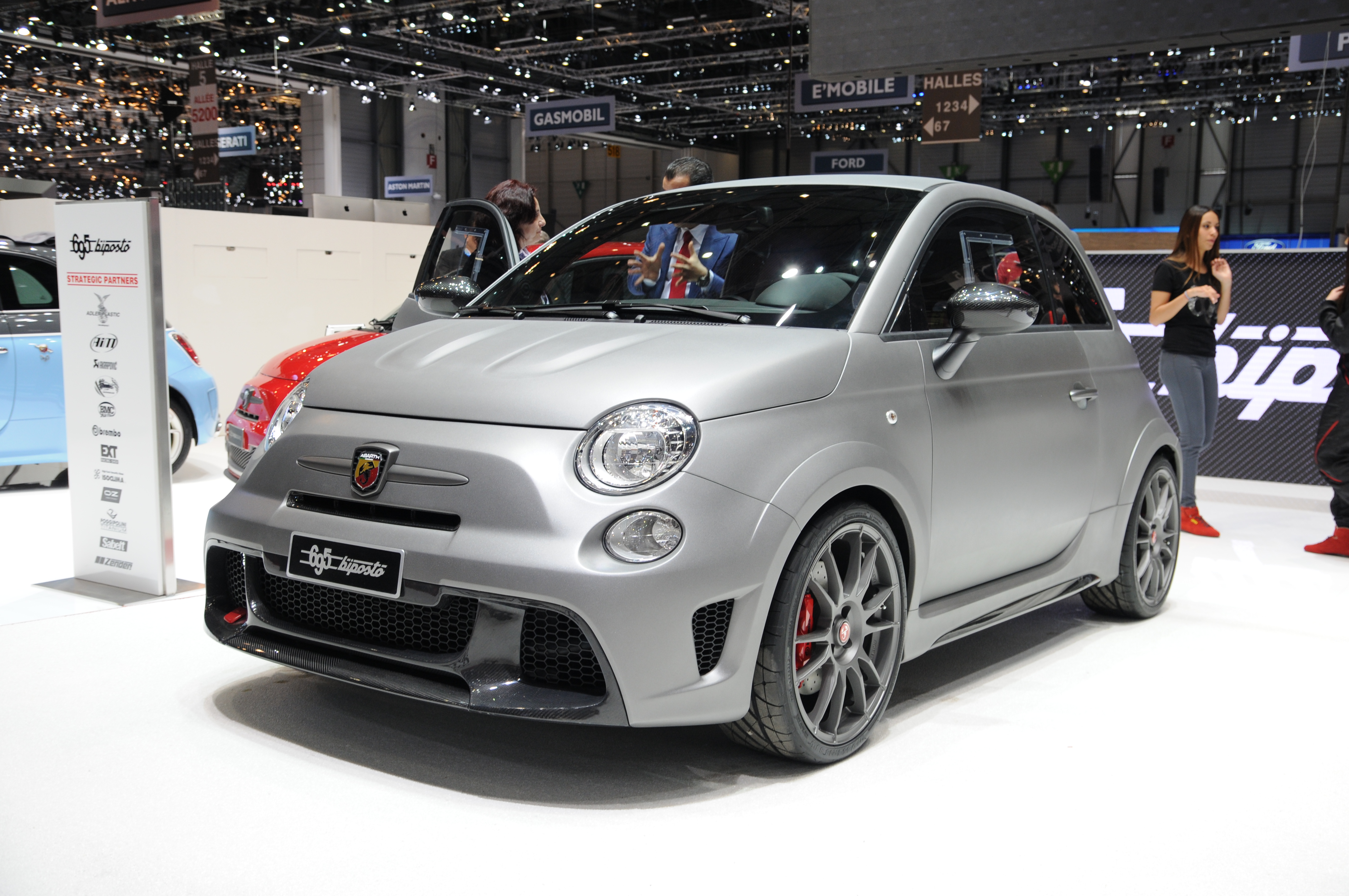 Geneva Motor Show 2014 (photo taken on the first press day)